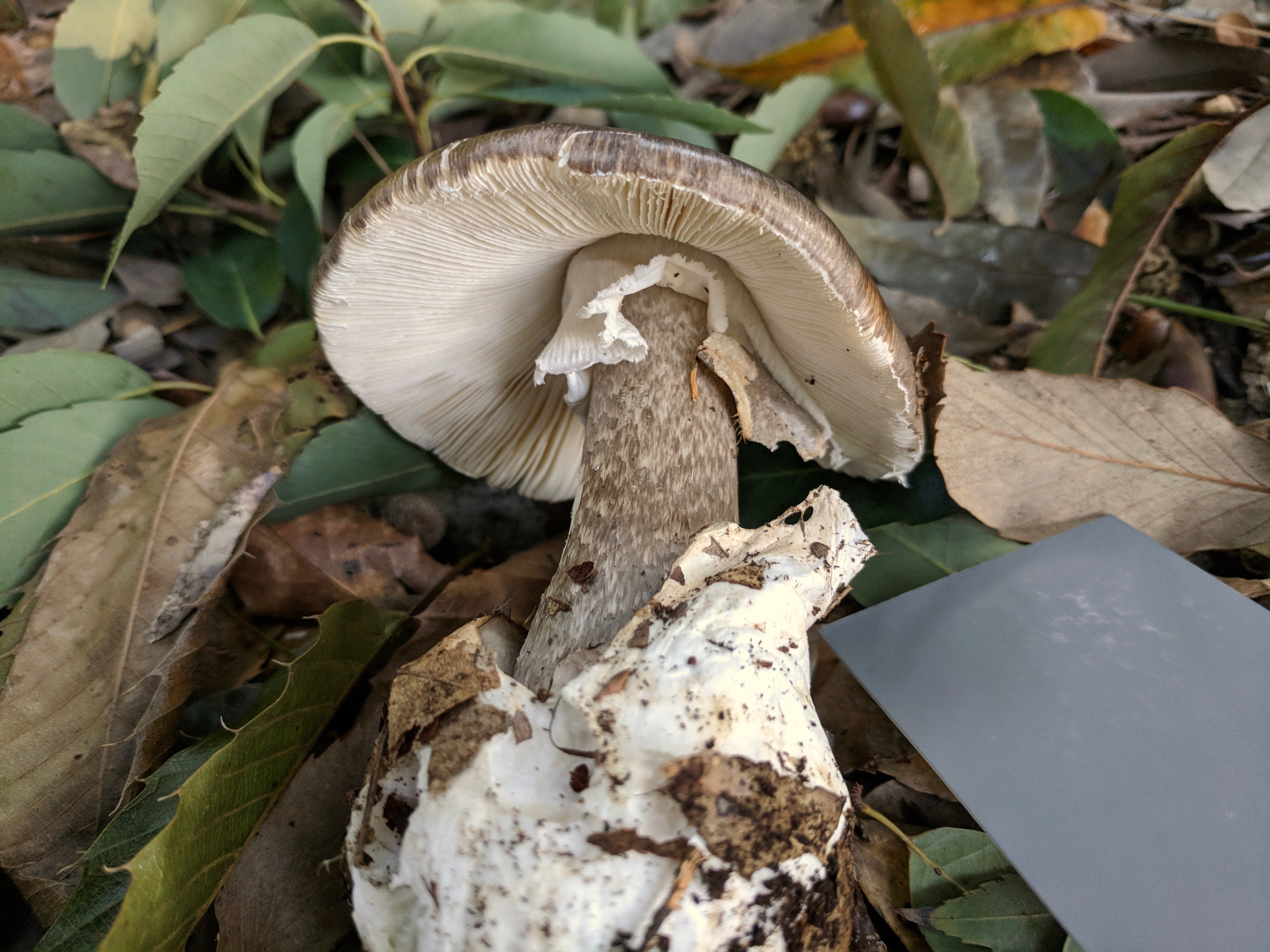 Amanita fuliginea Hongo Image location: Tsukuba, Ibaragi, Japan Growing under mixed woods of hardwoods and pine trees Recognized by sight For more information about this, see the observation page at Mushroom Observer.